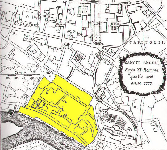 Map of the Rione Sant'Angelo, Rome, coloured to show the ghetto PLEASE NOTE: this is a draft version of this image, uploaded for discussion purposes only